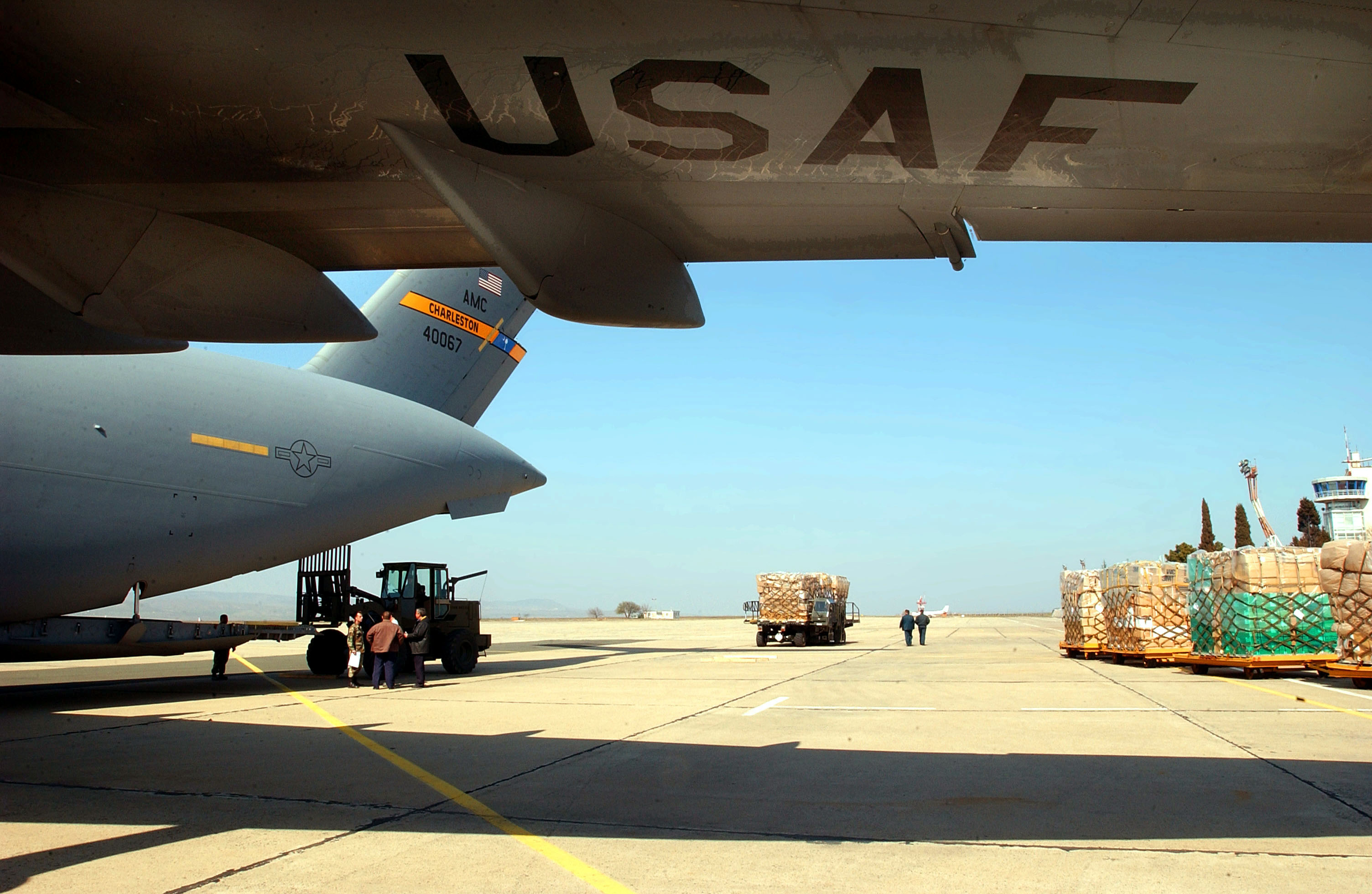 Airmen from the 409th Air Expeditionary Group, deployed to Camp Sarafovo, Bulgaria, palletize and load humanitarian cargo onto a C-17 Globemaster III